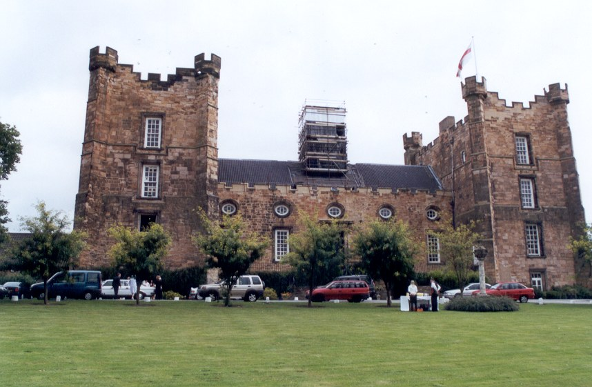 Lumley Castle, Reception venue